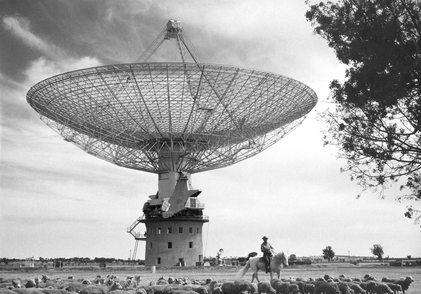 Austie Helm, from whom CSIRO bought the radio observatory site, musters a flock of sheep in the paddocks surrounding the telescope.